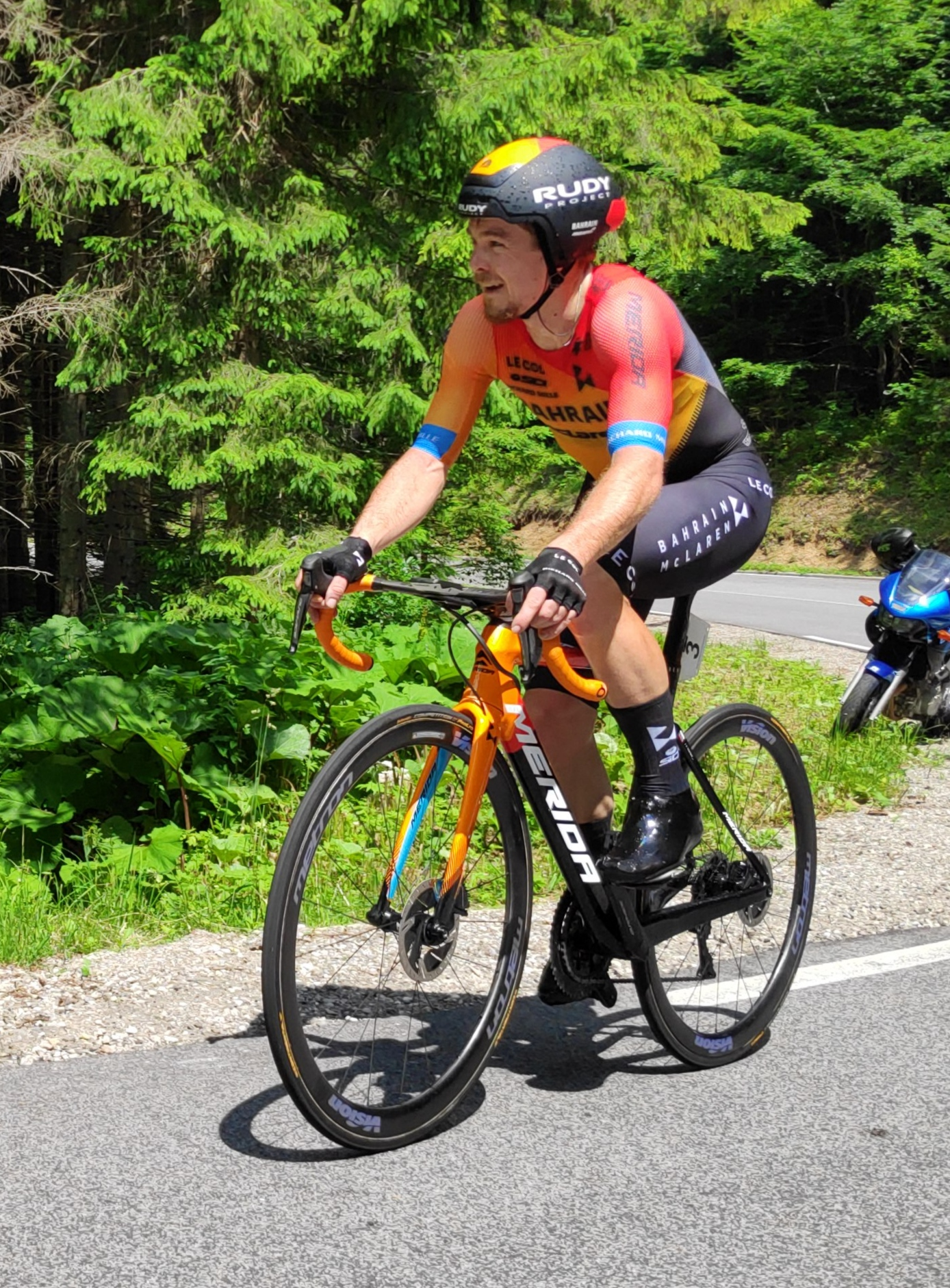 Jan Tratnik (2020 Slovenian National Time Trial championship) in dress of Team Bahrain McLaren